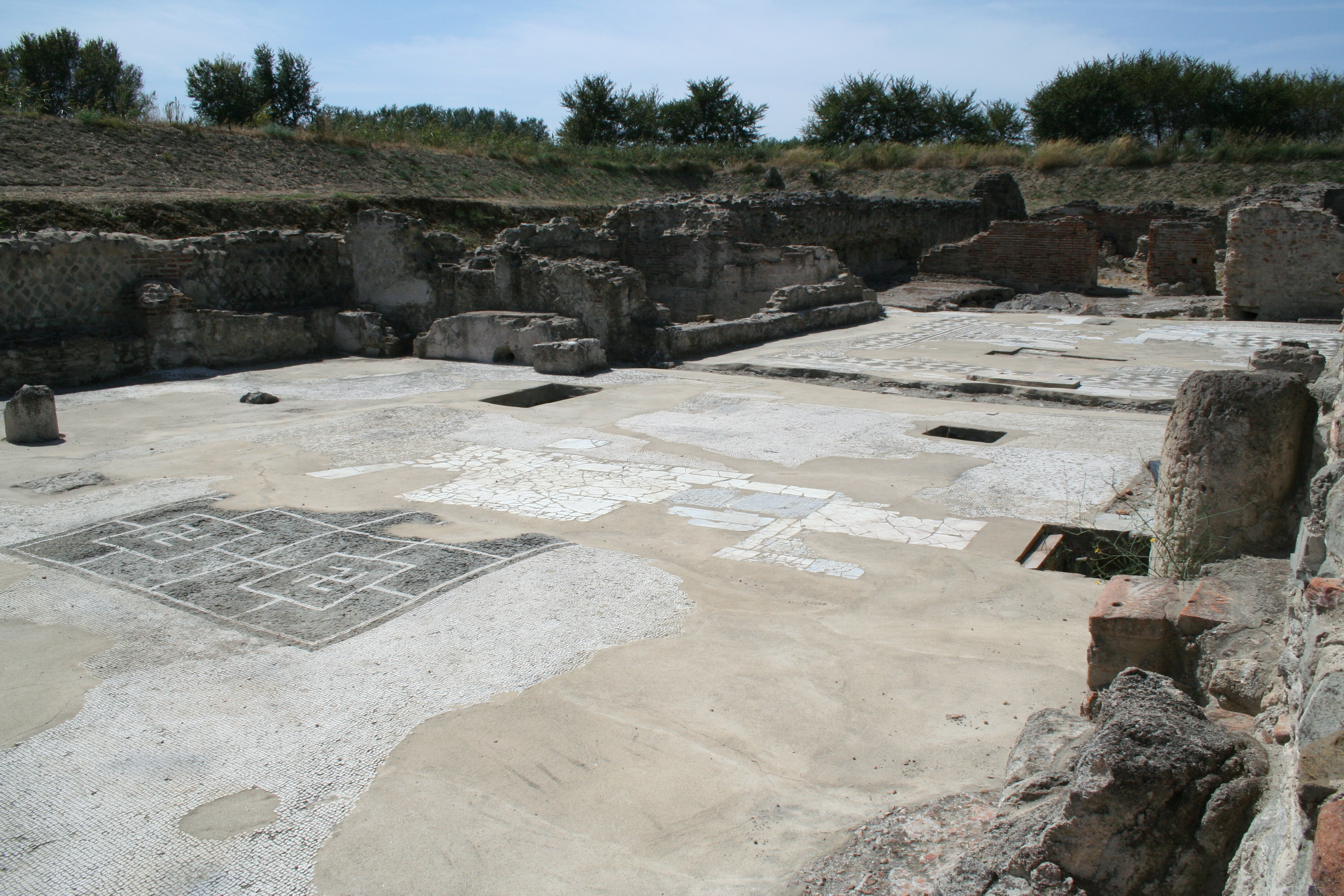 Excavated mosaic floor with swastikas in the archeological park of Sybaris. The later cities of Thurii and Copia were partially superimposed over the older settlement. The author and uploader have not been able to identify to which settlement these remains belong.